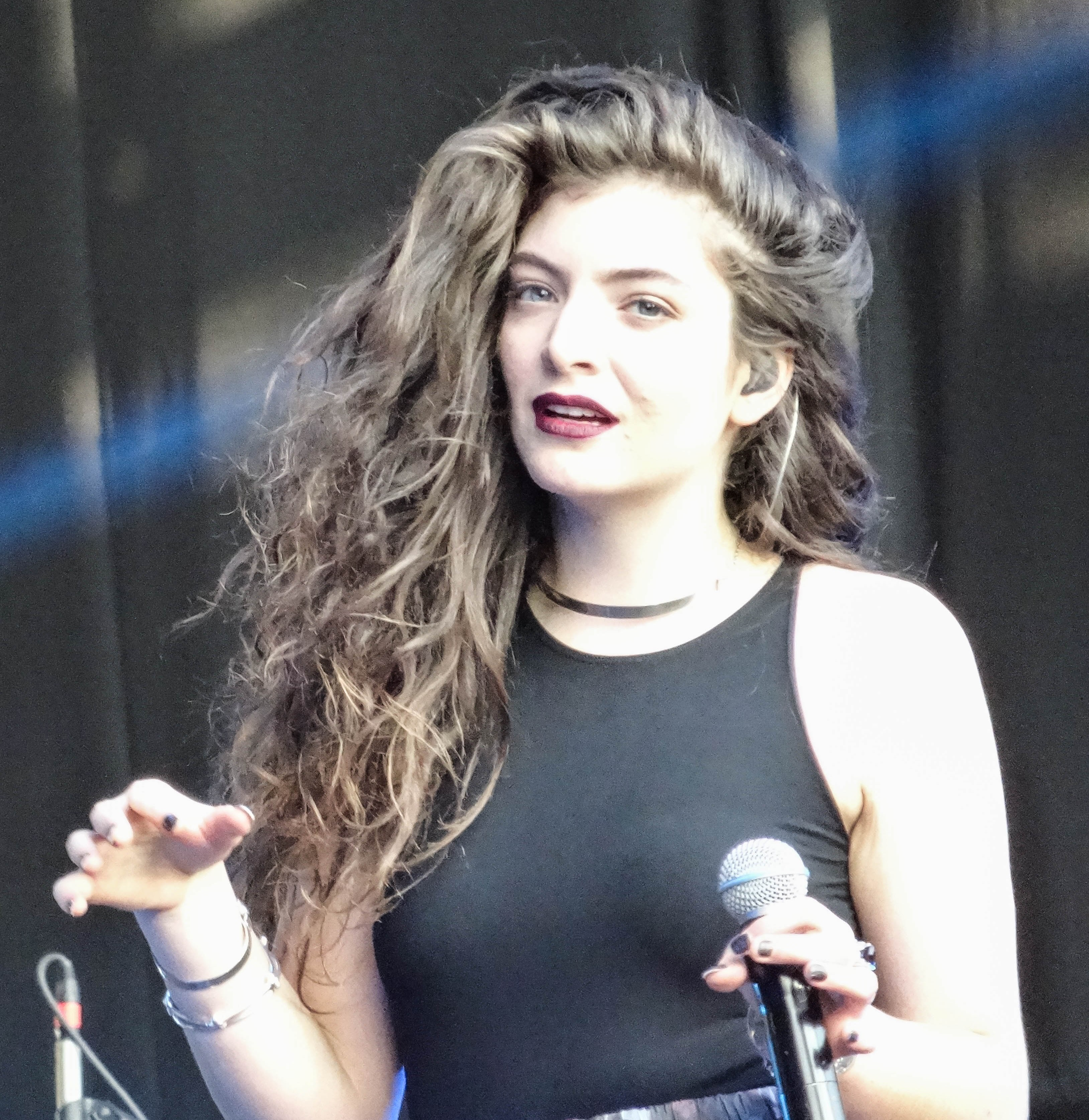 Lorde performing at Lollapalooza Chile in March 2014